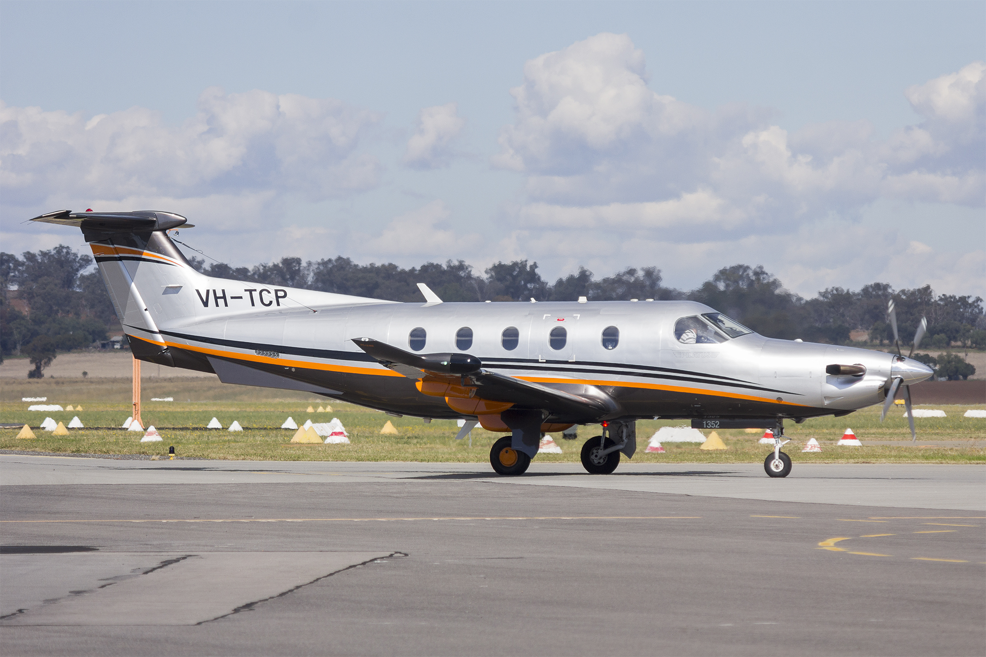 Argile Aviation (VH-TCP) Pilatus PC-12/47E (PC-12 NG) taxiing at Wagga Wagga Airport.